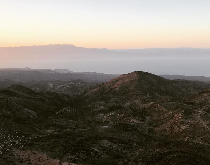 Near mountains Arta